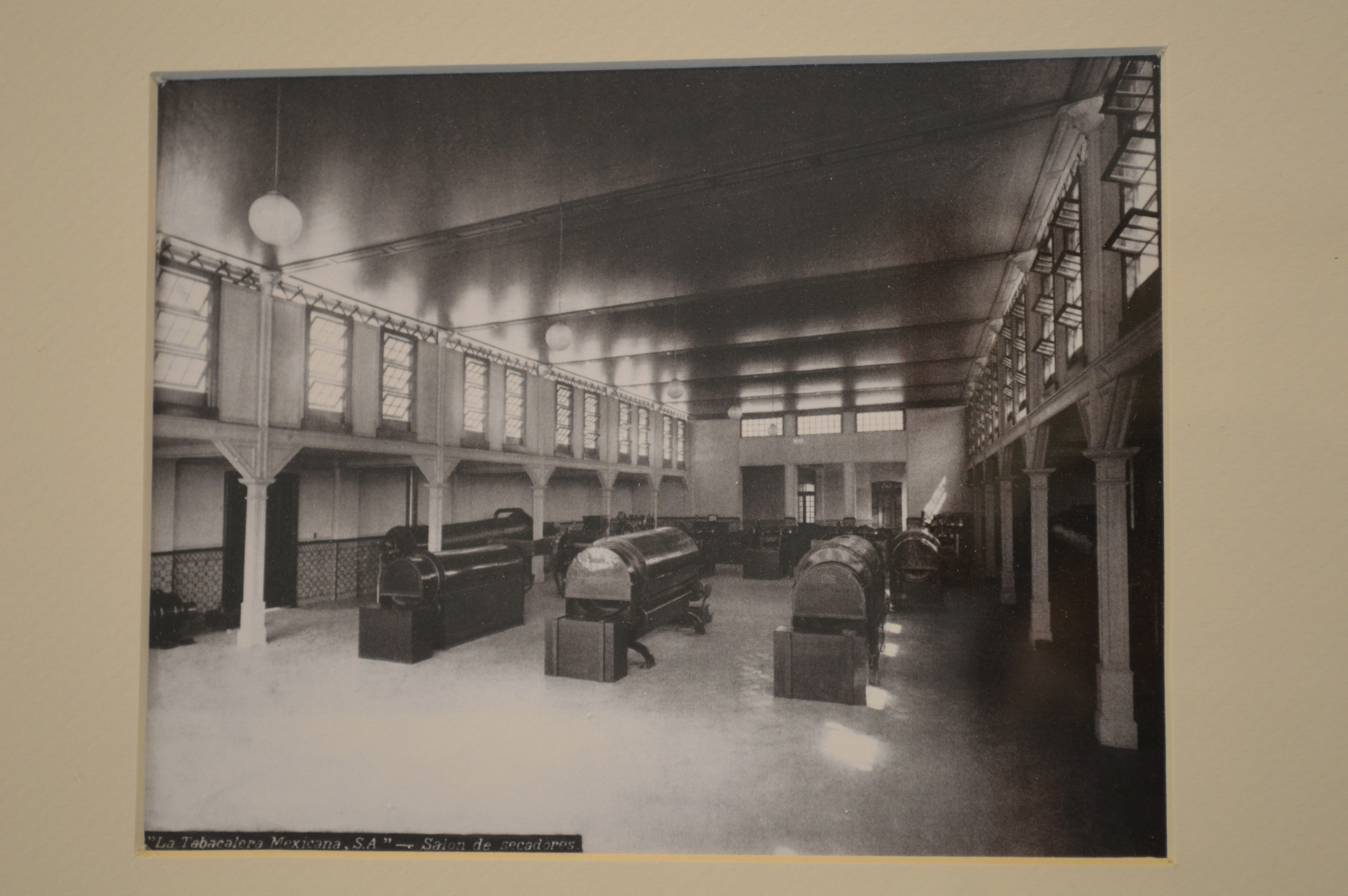 1907 Photograph by Guillermo Kahlo of the old Tabacalera cigar factory (today the Museo Nacional de San Carlos) in Mexico City